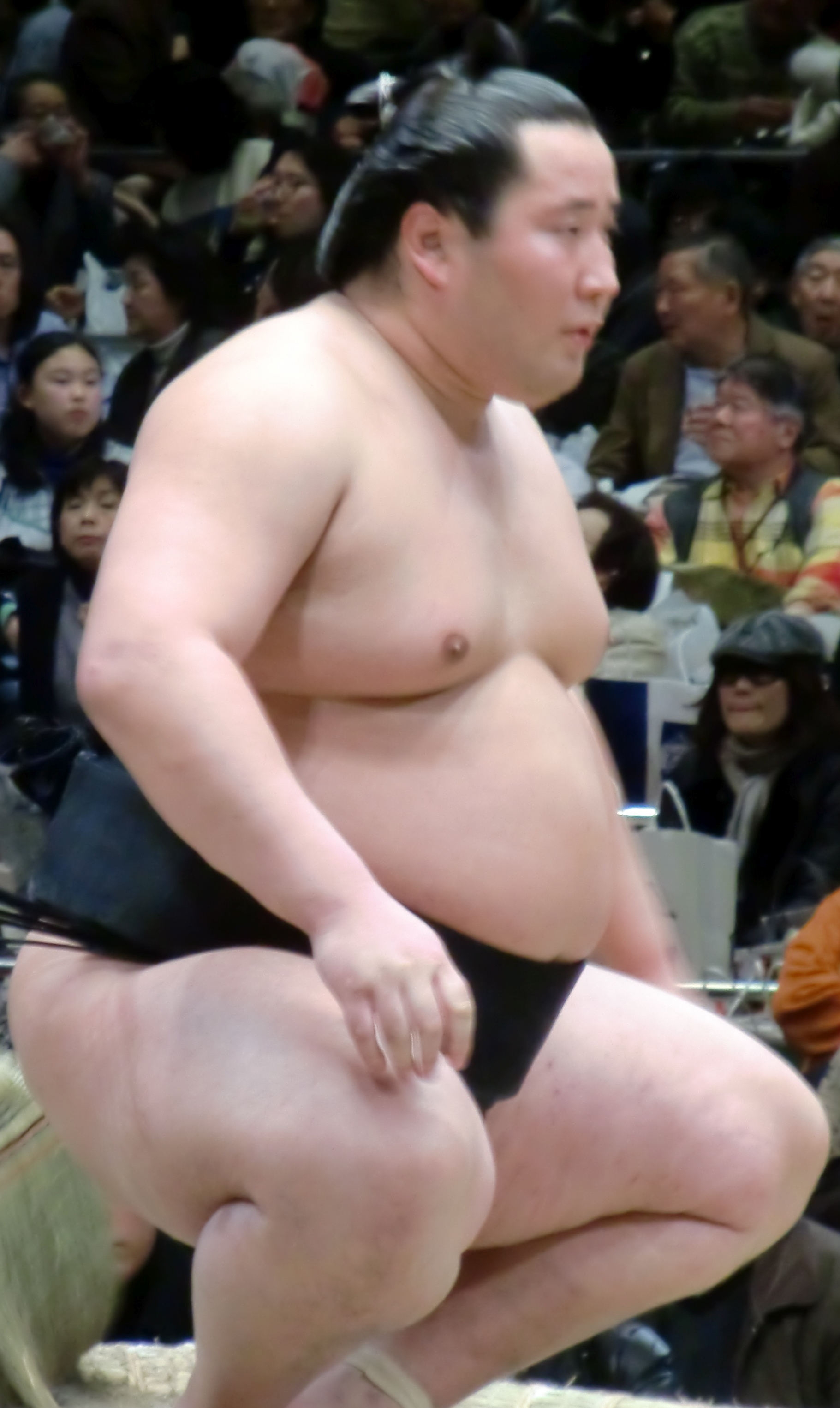 Taken at January 2010 tournament